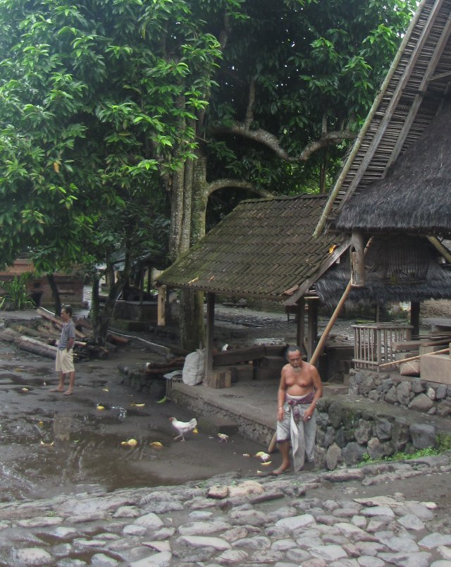 Tenganan